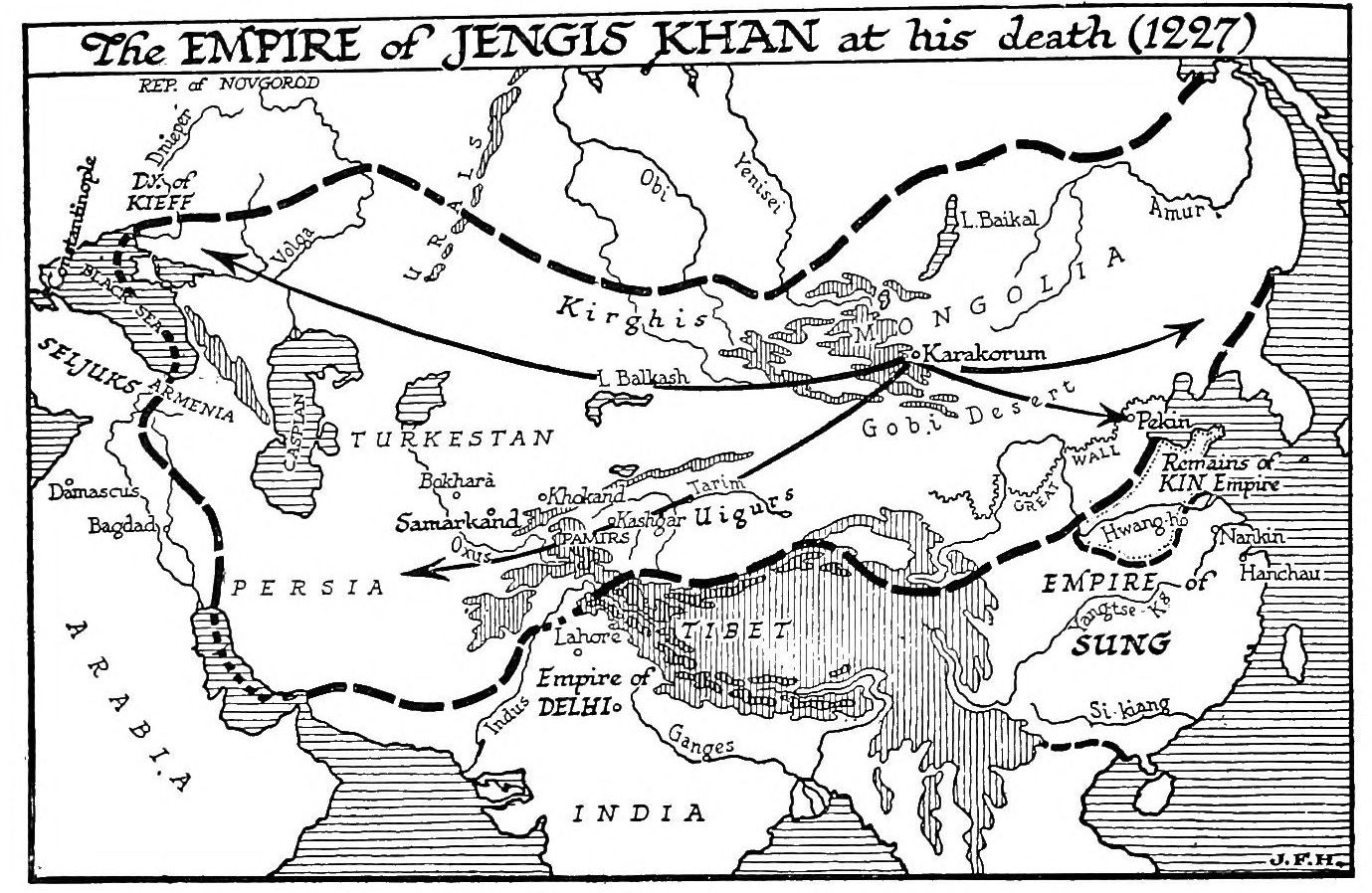 Scan from book "A Short History of the World"